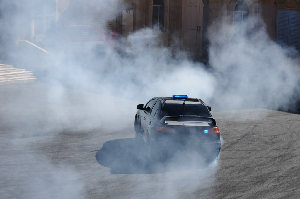 Polizia car drifting at Hollywood Stunt Driver, Warner Bros. Movie World